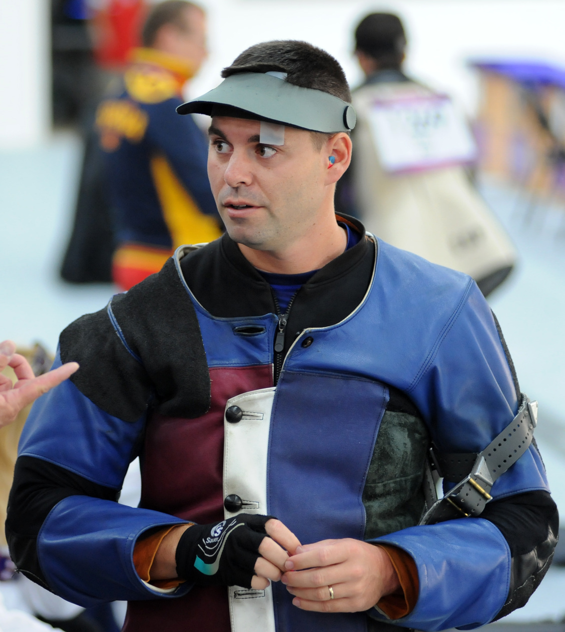 U.S. Army Marksmanship Unit shooter SSG Michael McPhail (right) talks with Team USA rifle coach MAJ David Johnson of the U.S. Army World Class Athlete Progam during the Olympic men's 50-meter rifle prone competition Aug. 3 at the Royal Artillery Barracks in London. McPhail missed making the final by virtue of a shoot-off between nine marksmen for five spots in the final and finished ninth in the event. U.S. Army photo by Tim Hipps, IMCOM Public Affairs